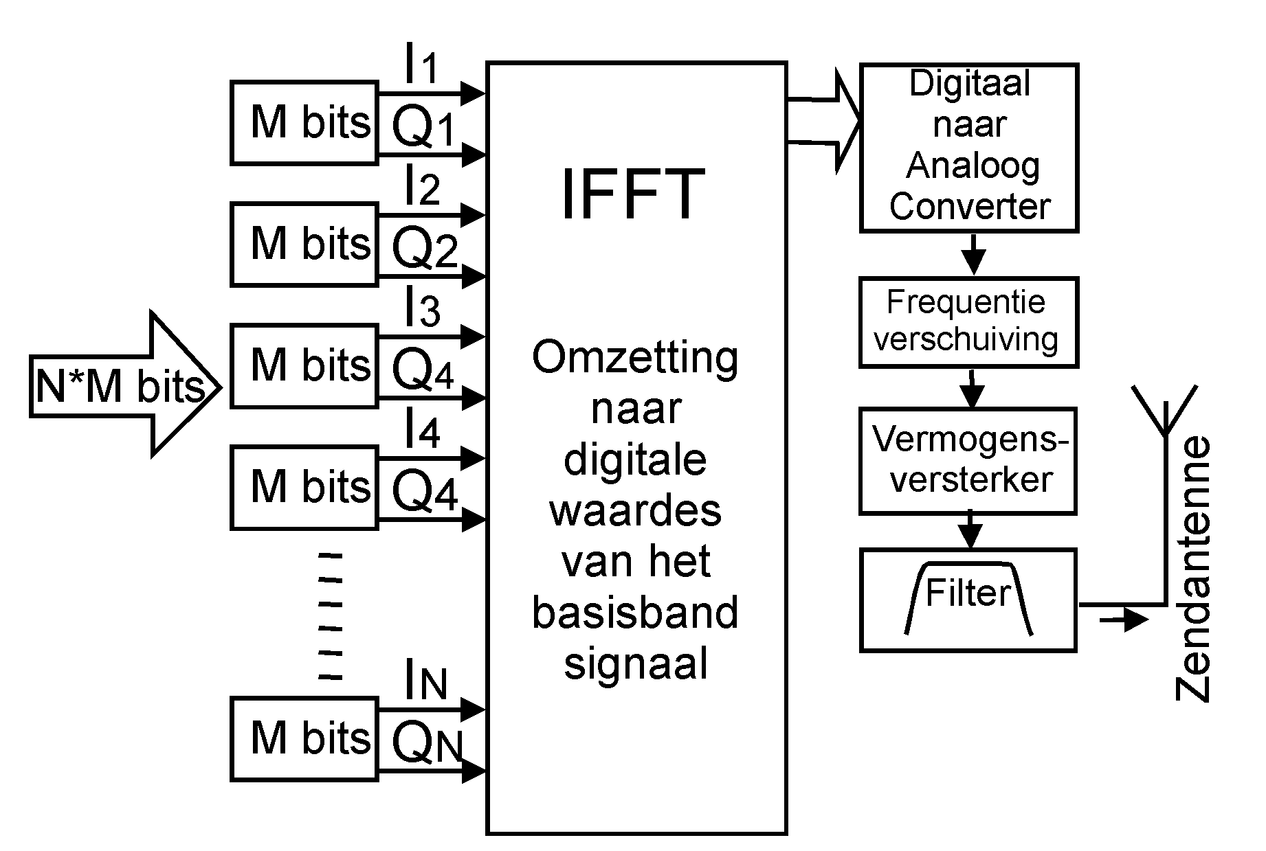 Block diagram of OFDM channel, text in Dutch language